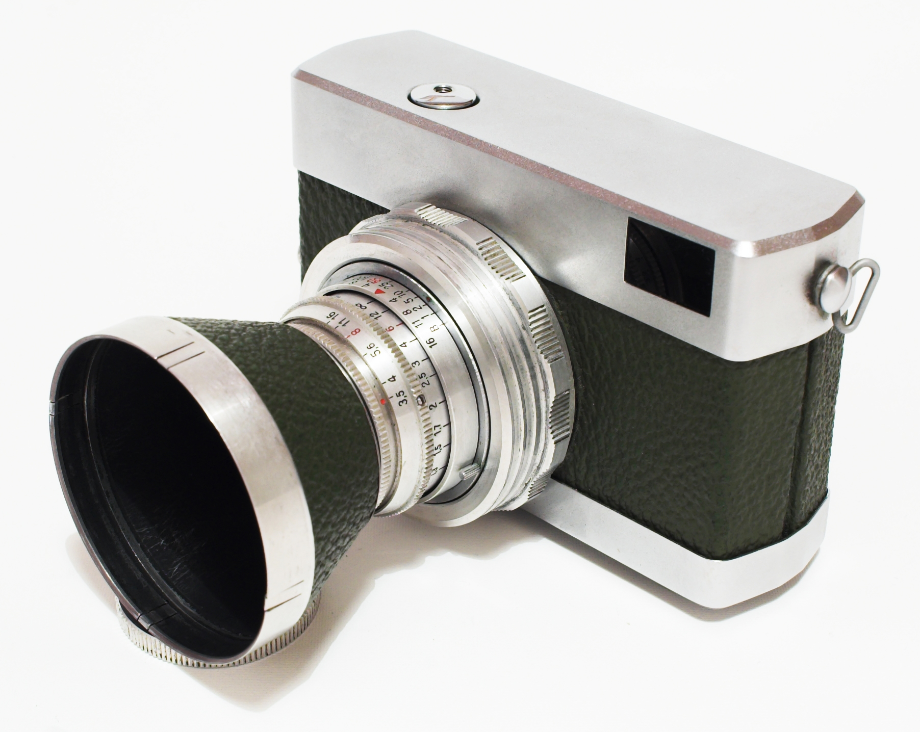 Werra is a German 35mm rangefinder camera with film advance ring iin the base of the lens. The lens cover also works as a lens shade.